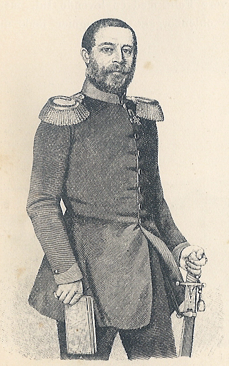 General Halkett of Prussia, during the First Schleswig War.